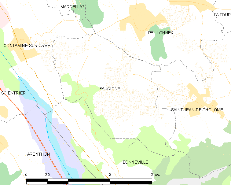 Map of French municipality Faucigny